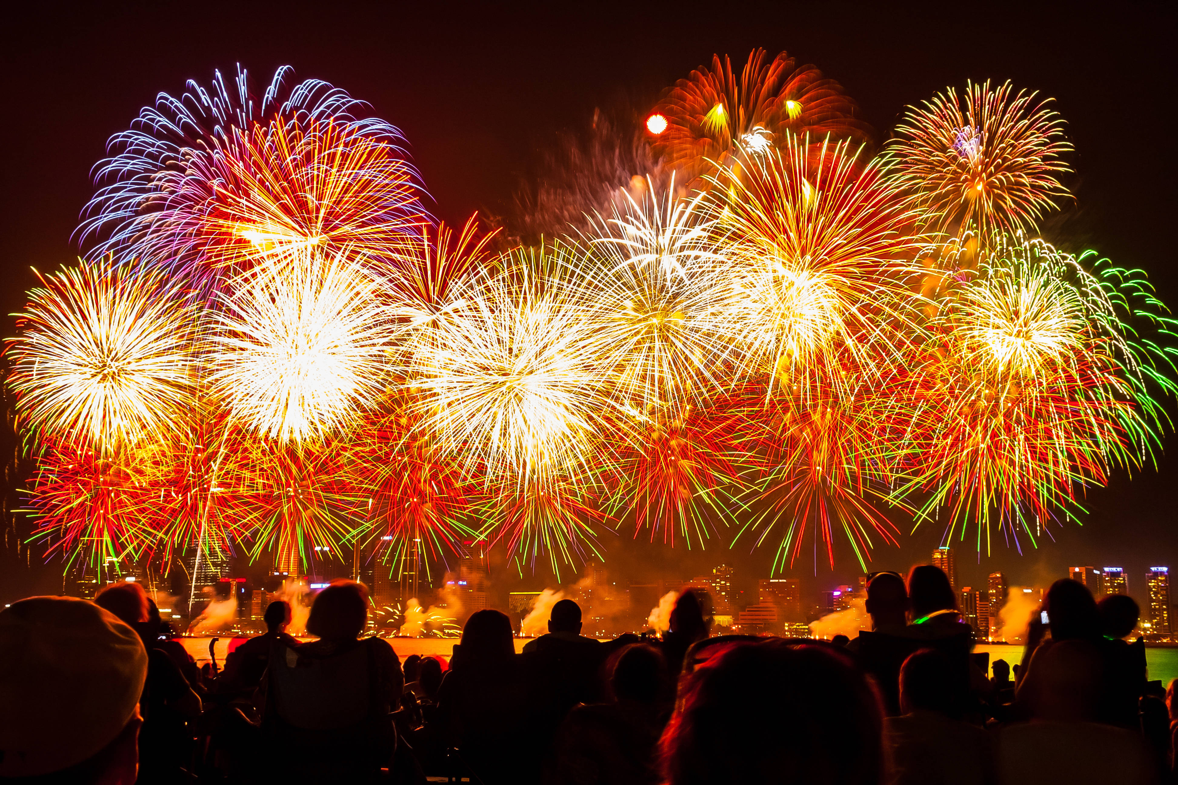 Australia Day Celebrations in Perth, WA - 26 January 2013